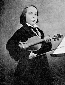 Photograph of Alexander Campbell Mackenzie aged 12 as a student in Germany in 1859. In 1927 he said, "If I could only finish my career with a head of hair like that, I should die happy."